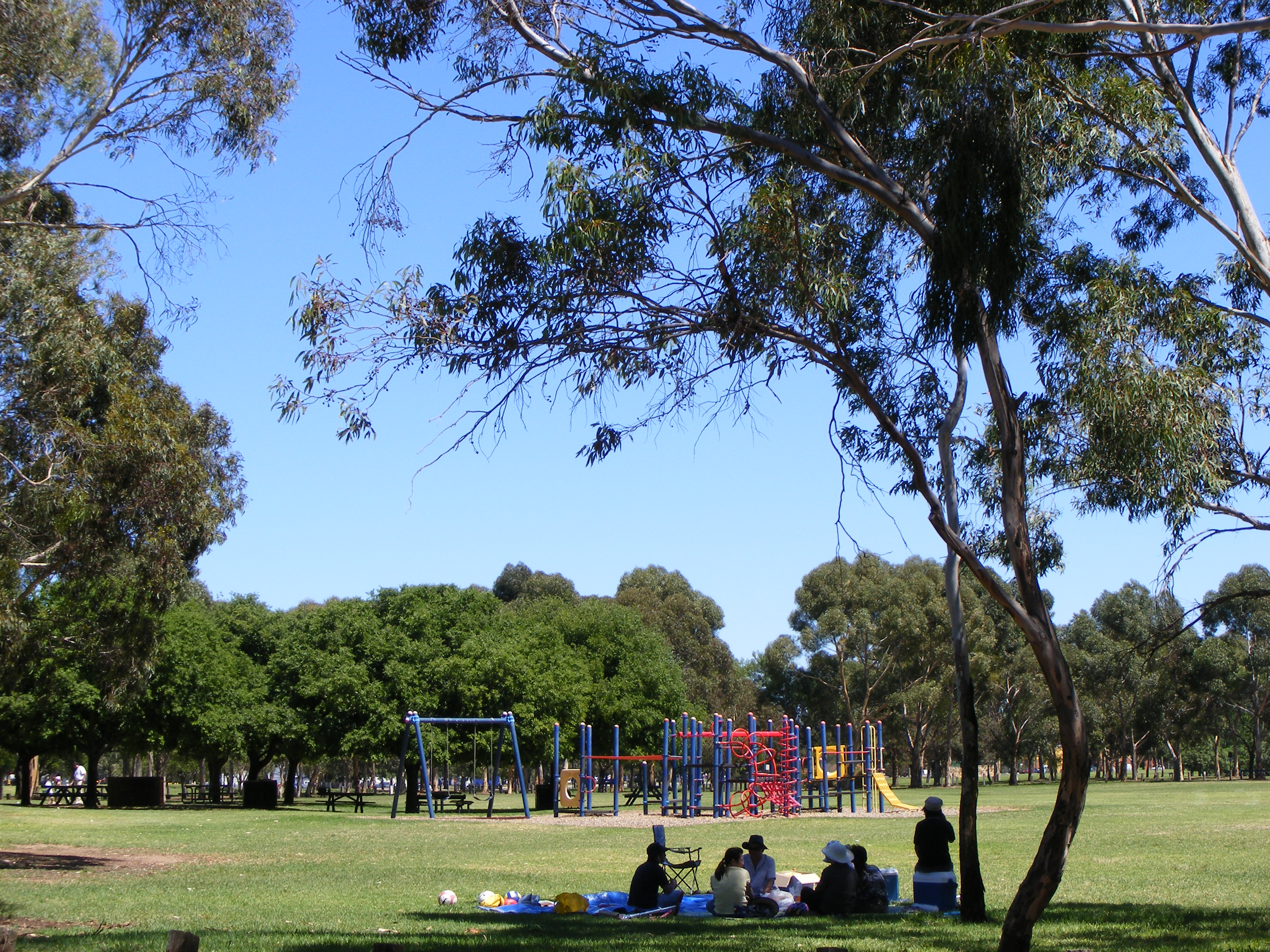 Family picnicing in the shade on a hot summer day at Bonython Park on the banks of River Torrens, Adelaide, South Australia